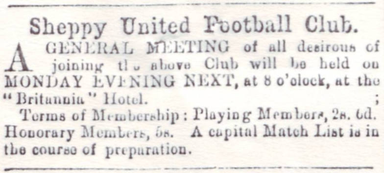 Newspaper Notification Of Sheppey United formation